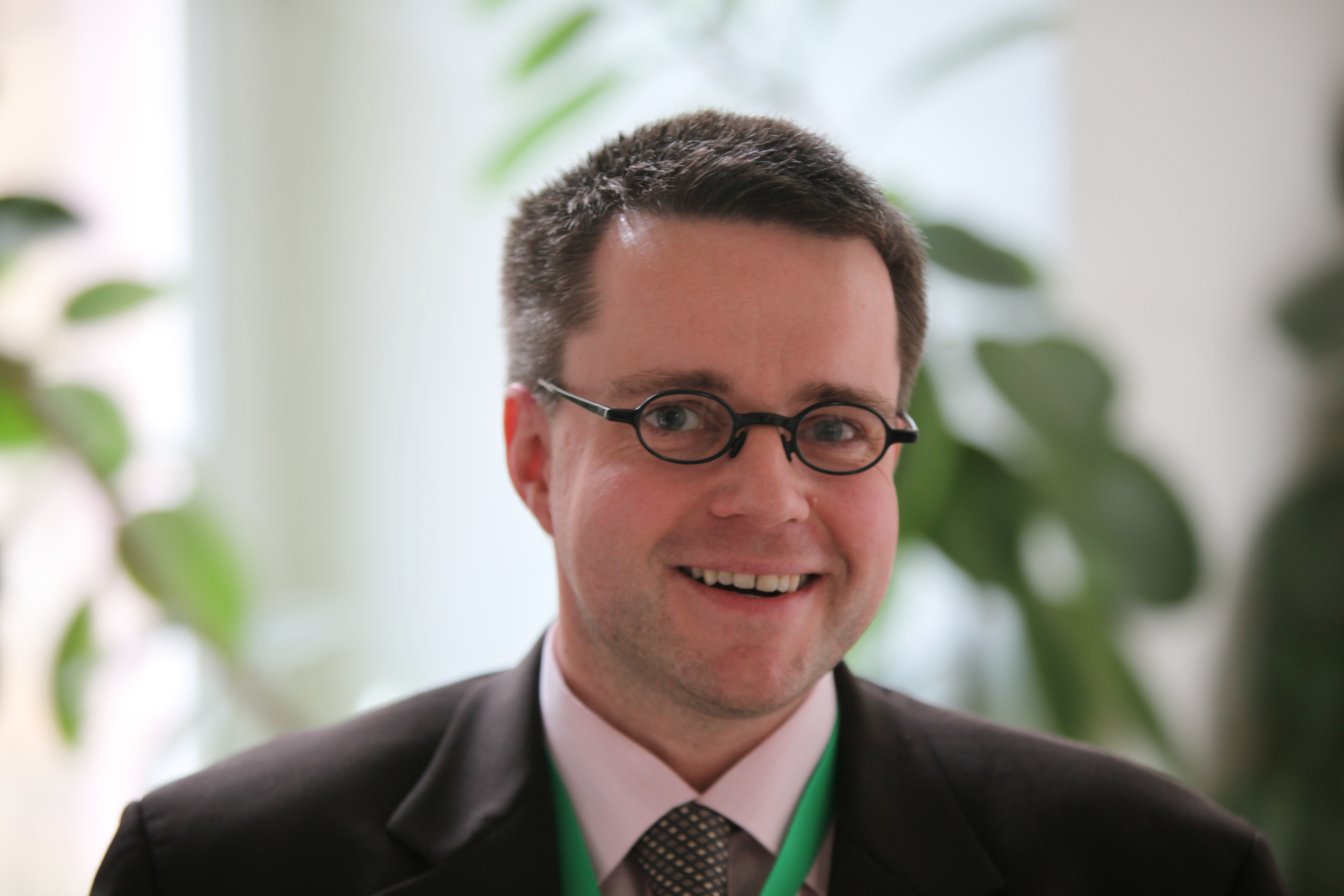 Eric Steinhauer at the Göttingen conference on copyright (Urheberrechtstagung)